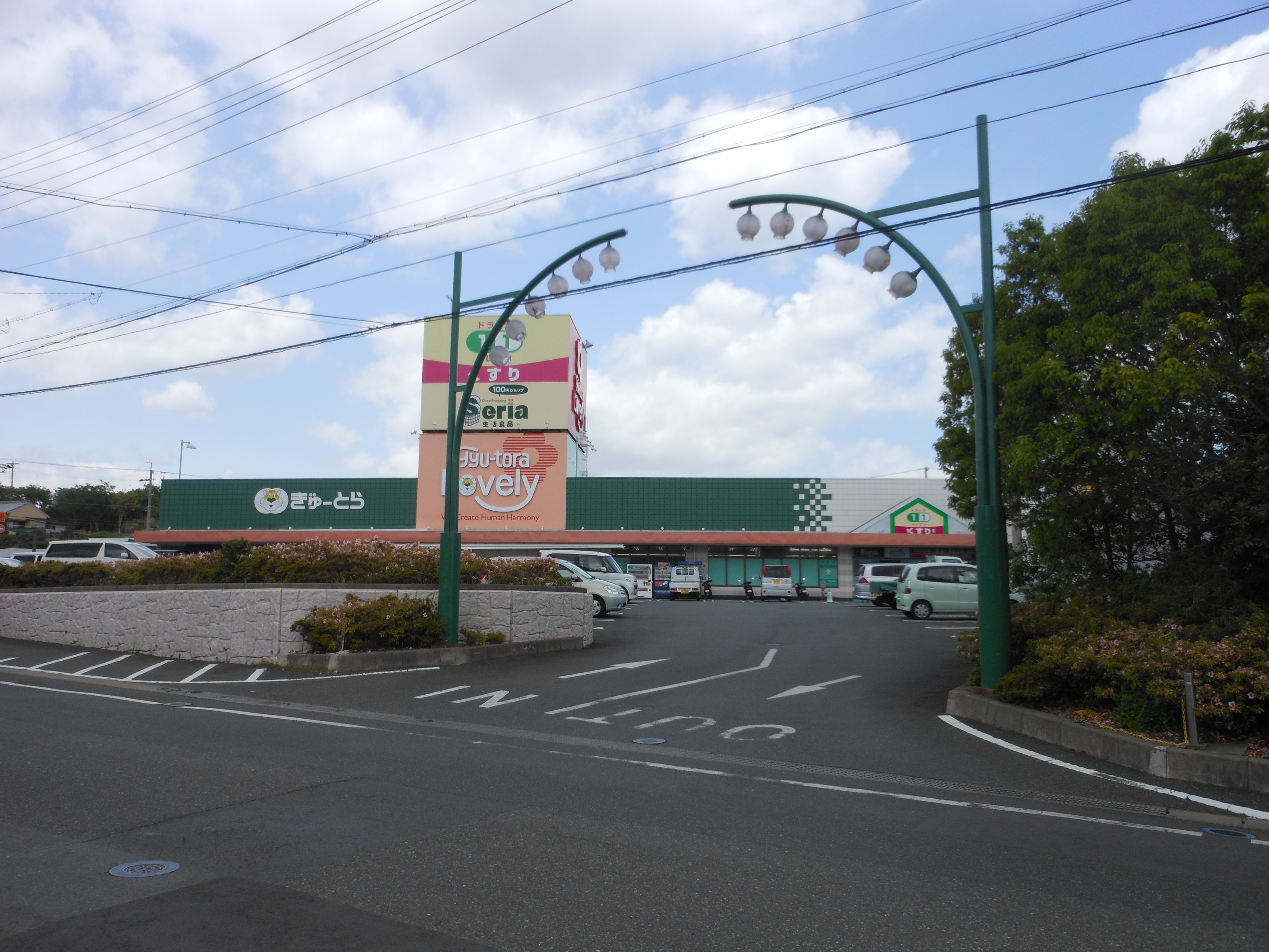 This is the ｓhopping center in Shimacho-Fuseda, Shima, Mie, Japan. Main tenant of this shopping center is Gyutora Lovely Shima shop.